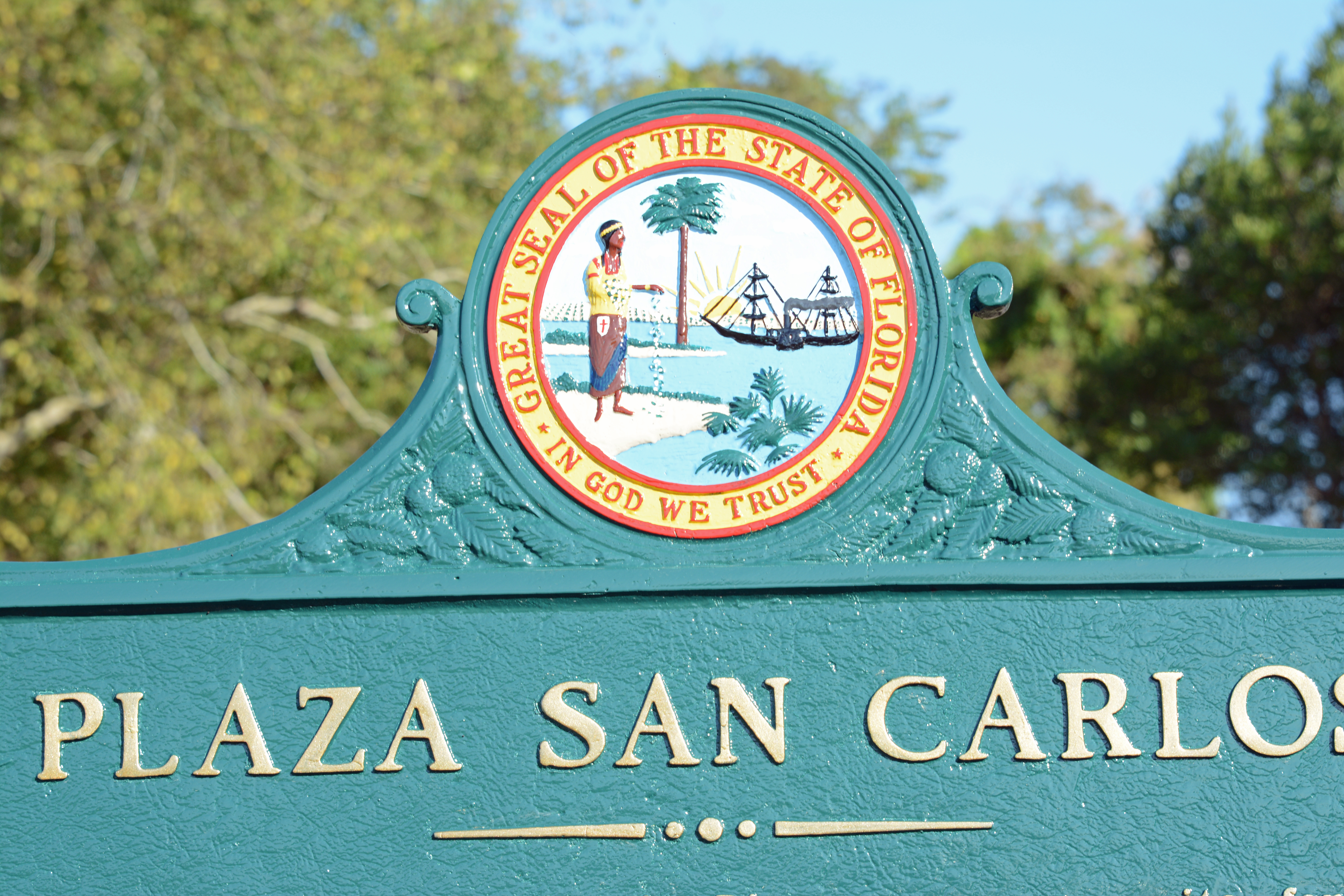 The seal of Florida on a historical marker in Fernandina Beach